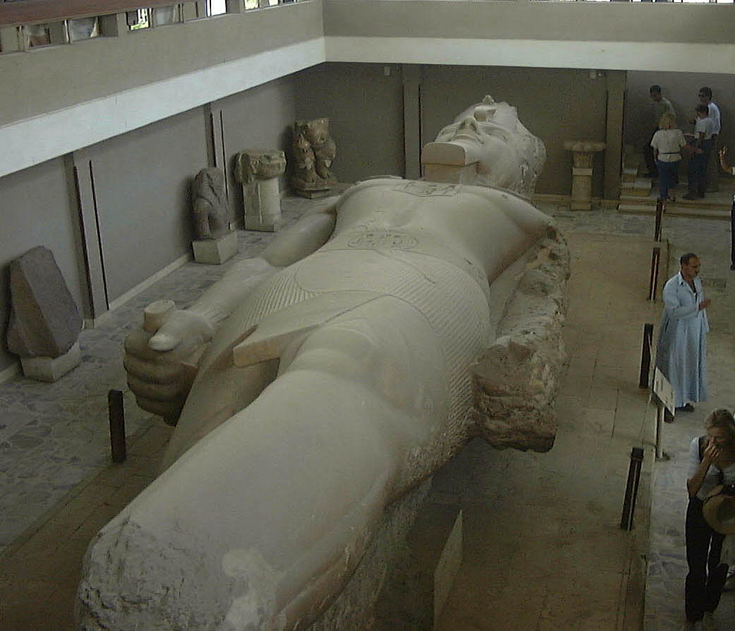 Colossal statue of Ramesses II at Memphis, Egypt. Photo taken in September 1999 by Barrylb.